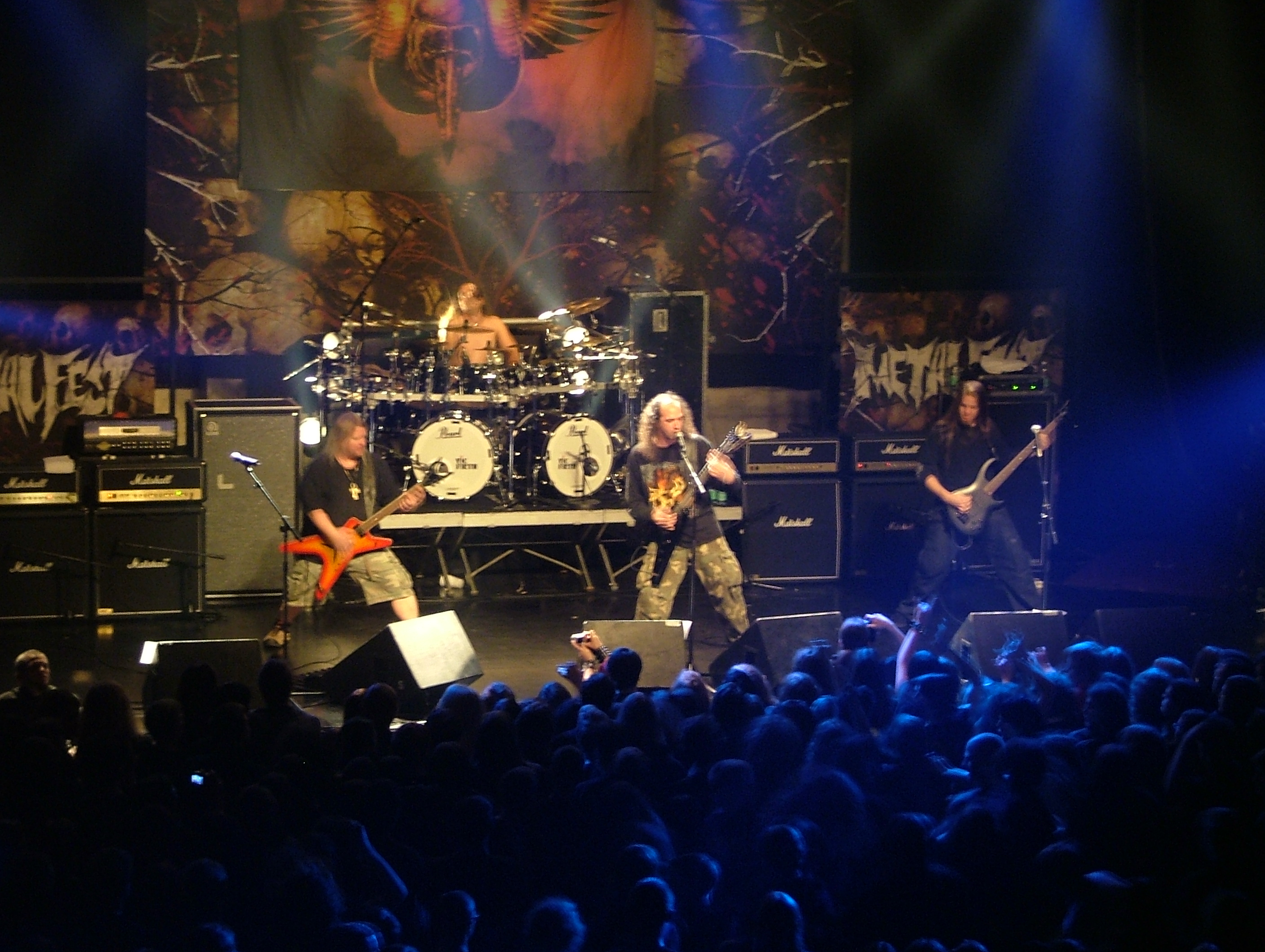 USamerican death metal band Nile